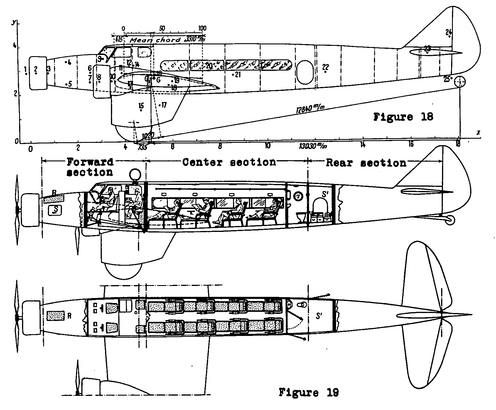 Dewoitine D.332 detail drawing from NACA-AC-185